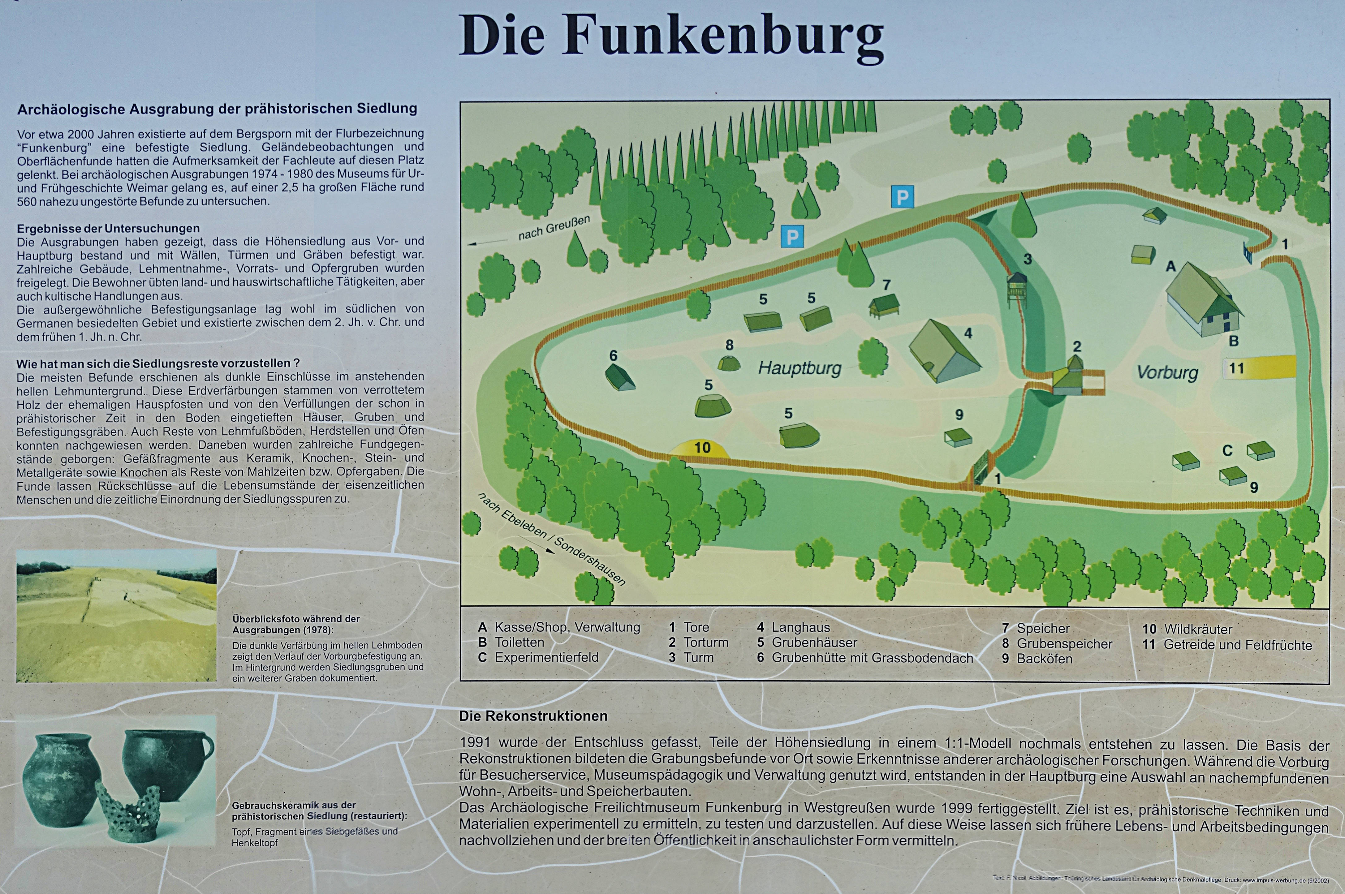 Plan of Funkenburg near Westgreußen in Thuringia